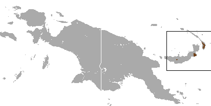 Gilliard's Flying Fox (Pteropus gilliardorum) range